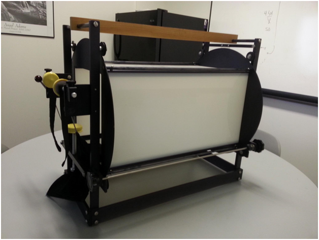 A picture taken of the Rod and Frame apparatus owned and operated by the Rochester Institute of Technology.